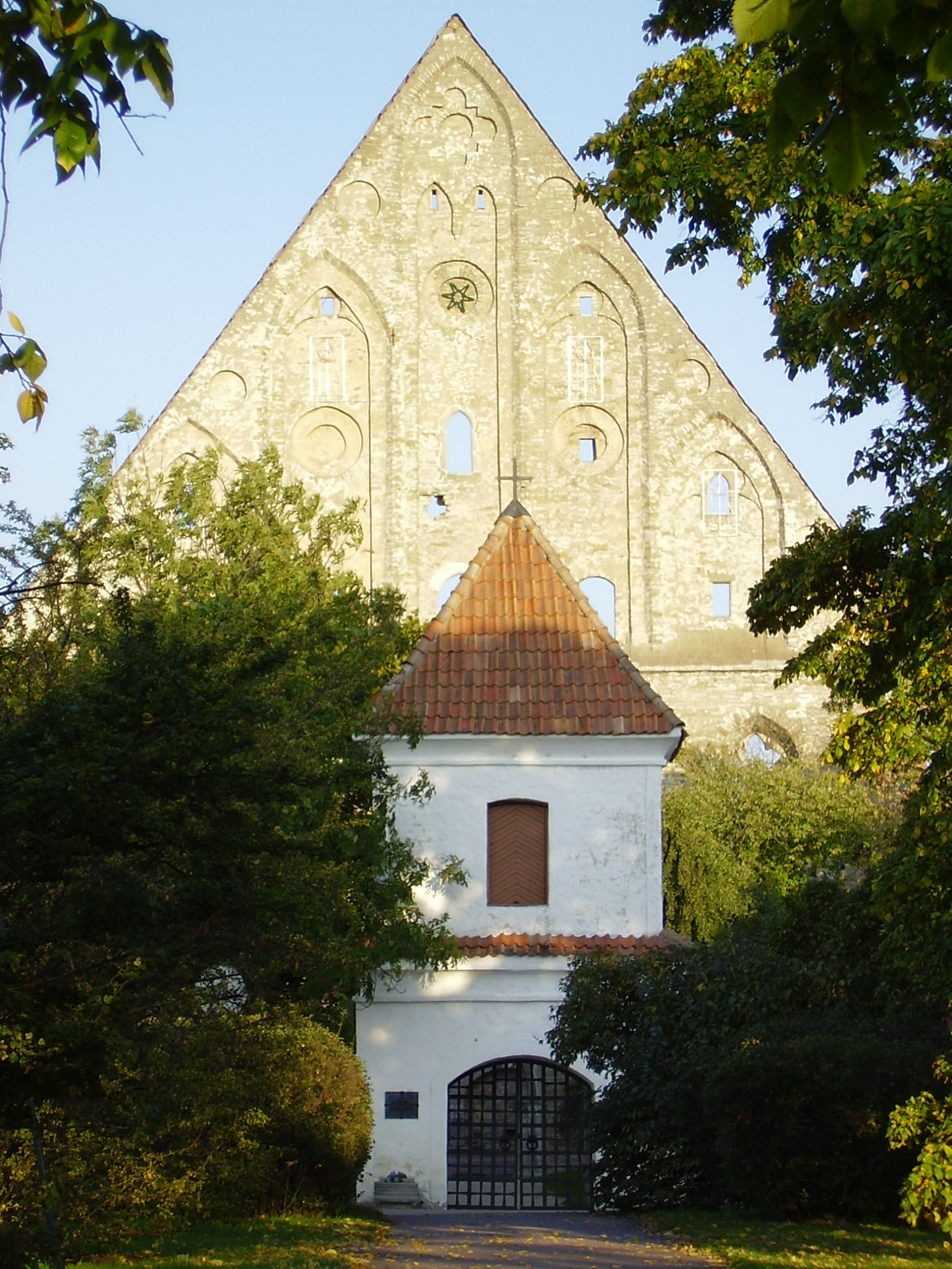 Pirita Convent